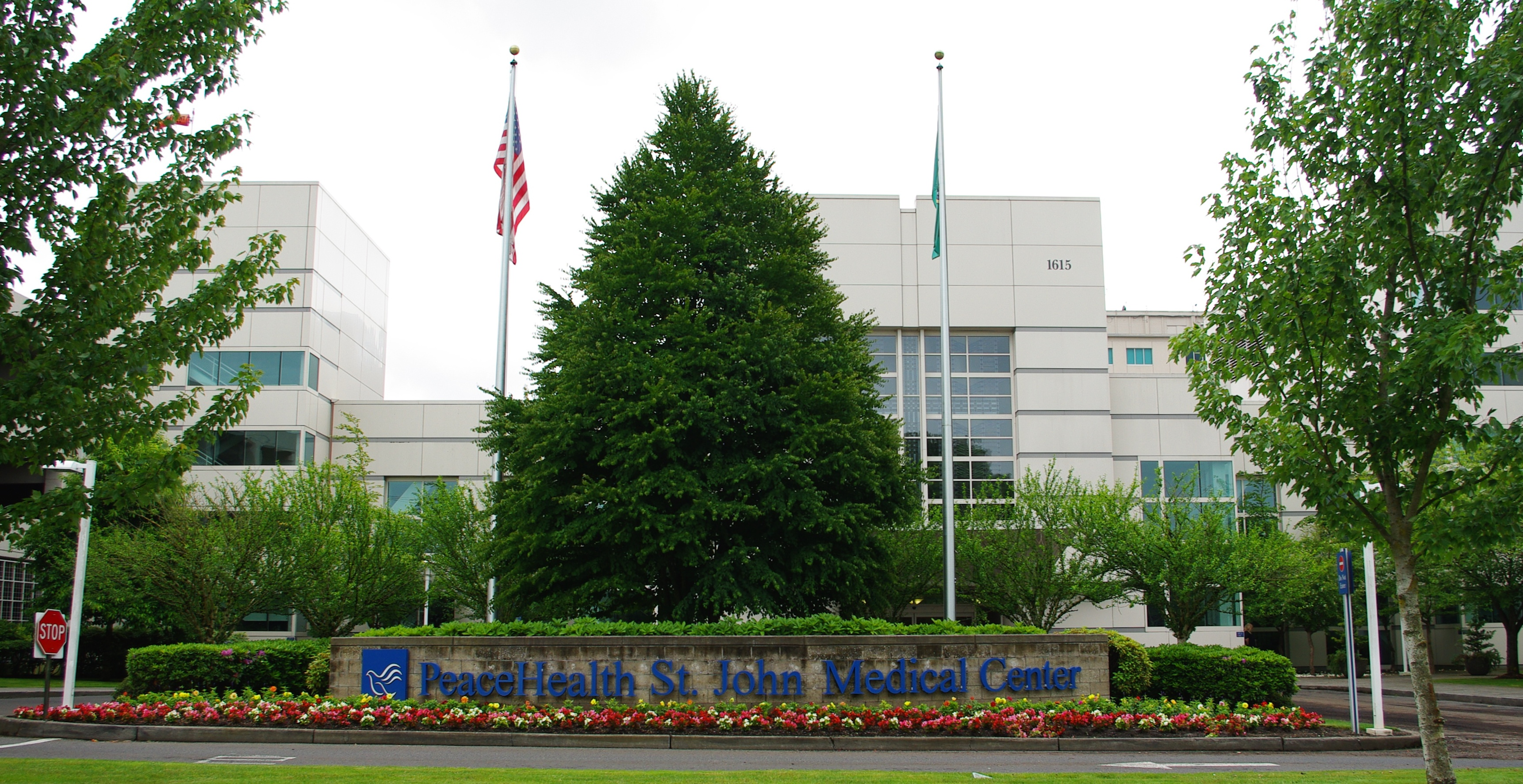 PeaceHealth Saint John Medical Center in Longview, Washington